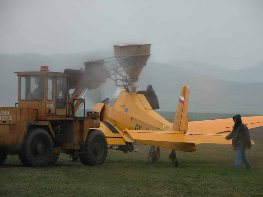 John Richards Private Collection No restriction on use.